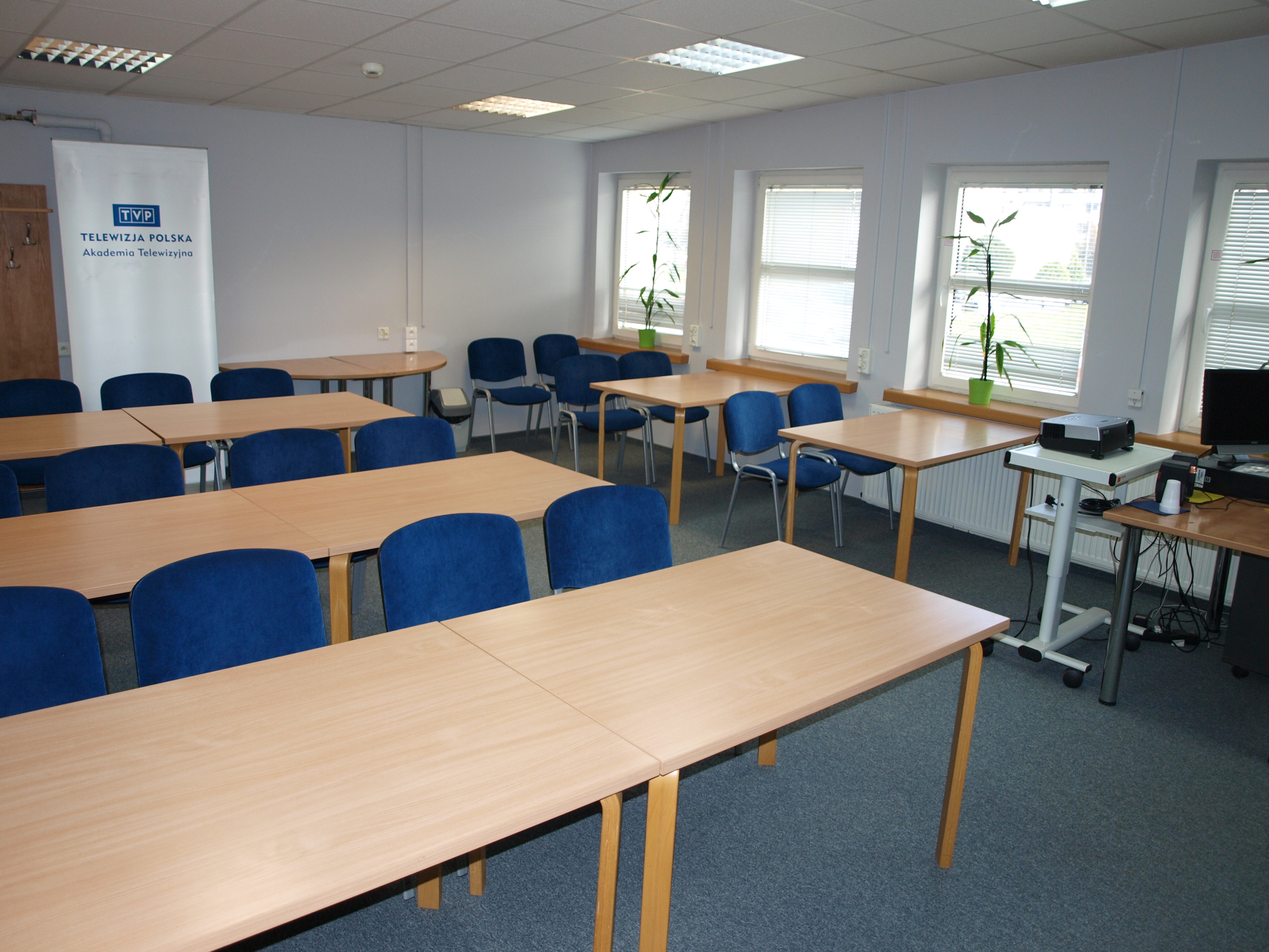 Lecture Hall No. 4 of the Academy of Television